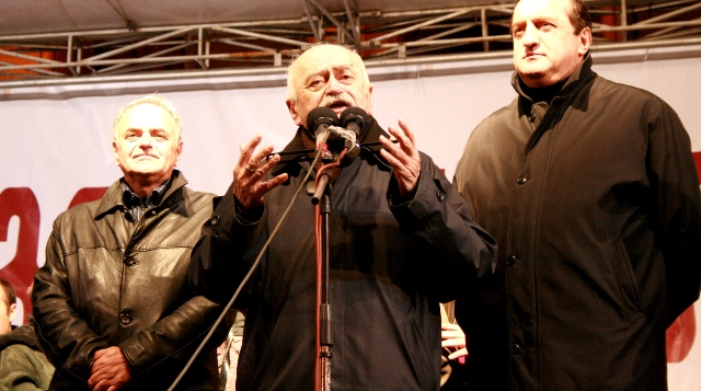 April 10, 2009... Famous Georgian director, Rezo Chkeidze in front of parliament building speaking to the protesters